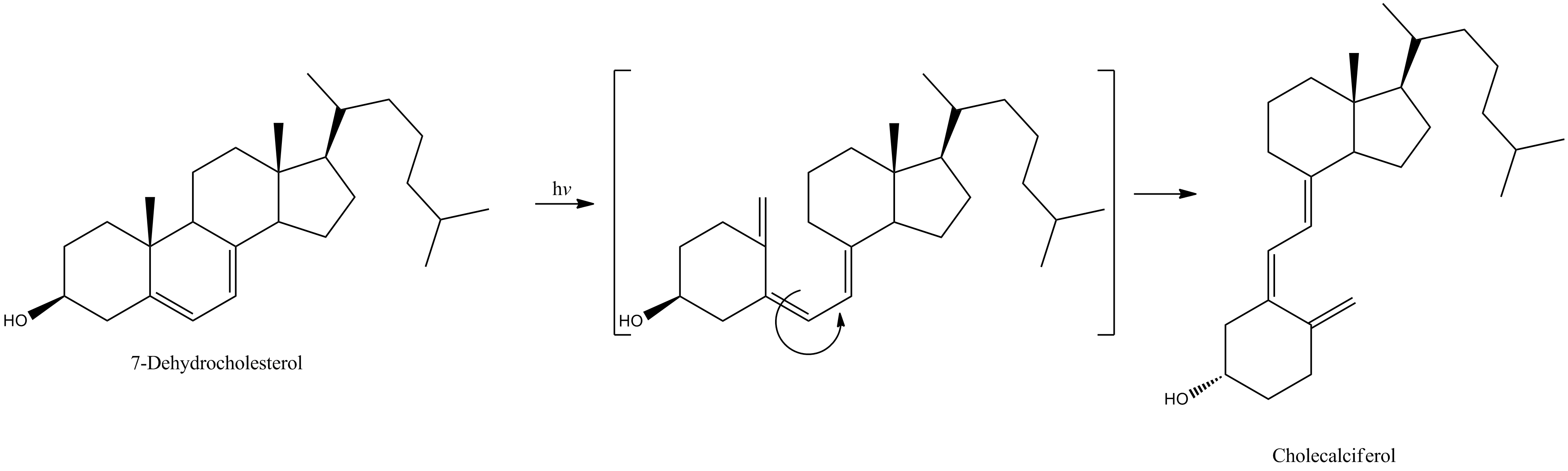 Irradiation of 7-Dehydrocholesterol with UV light to produce cholecalciferol (vitamin D).